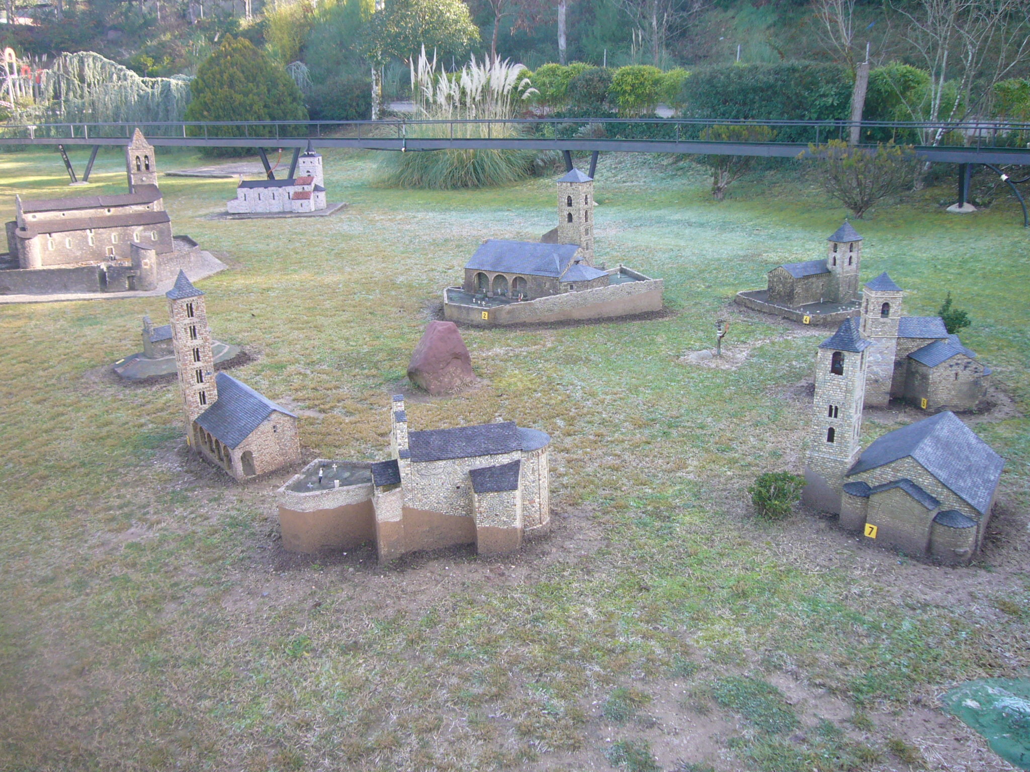 Scale model at the "Catalunya en Miniatura" miniature park. Romanesque churches of the Boi Valley. From left to right: Sant Quirc de Durro (1), Santa Eulàlia d'Erill la Vall (3), Santa Maria de Cardet (6), Santa Maria de la Nativitat de Durro (2), Santa Maria Assumpció de Coll (4), Sant Feliu de Barruera (5), Sant Joan de Boí (7)